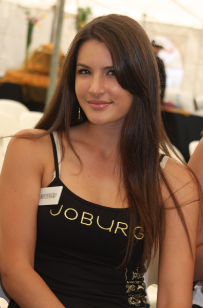 Miss Montenegro 2008 Mariana Mihajlovic during Miss World 08